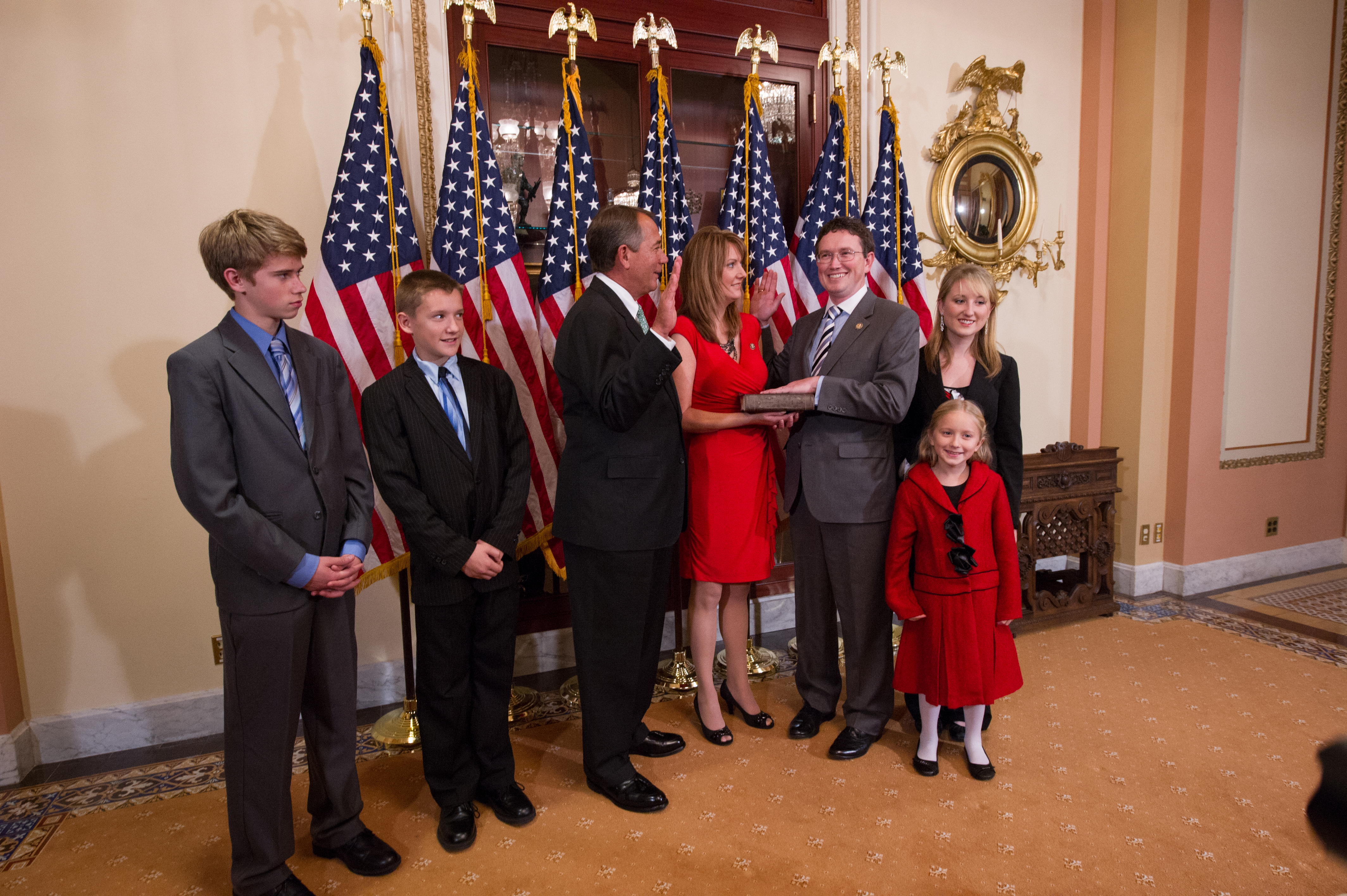 Congressman Thomas Massie being ceremonially sworn in by Speaker of the House John Boehner.